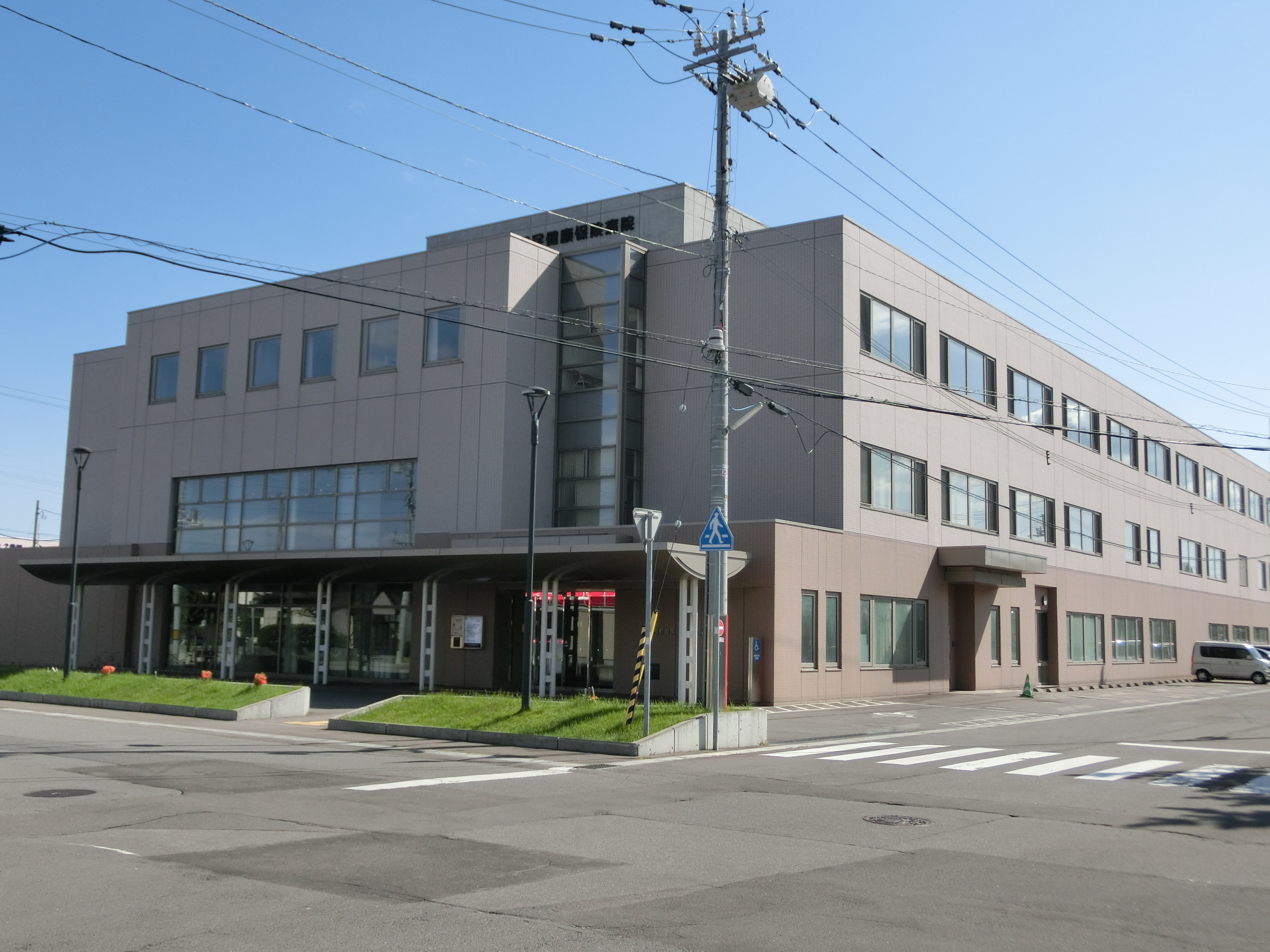 National Health Insurance Kikonai Hospital